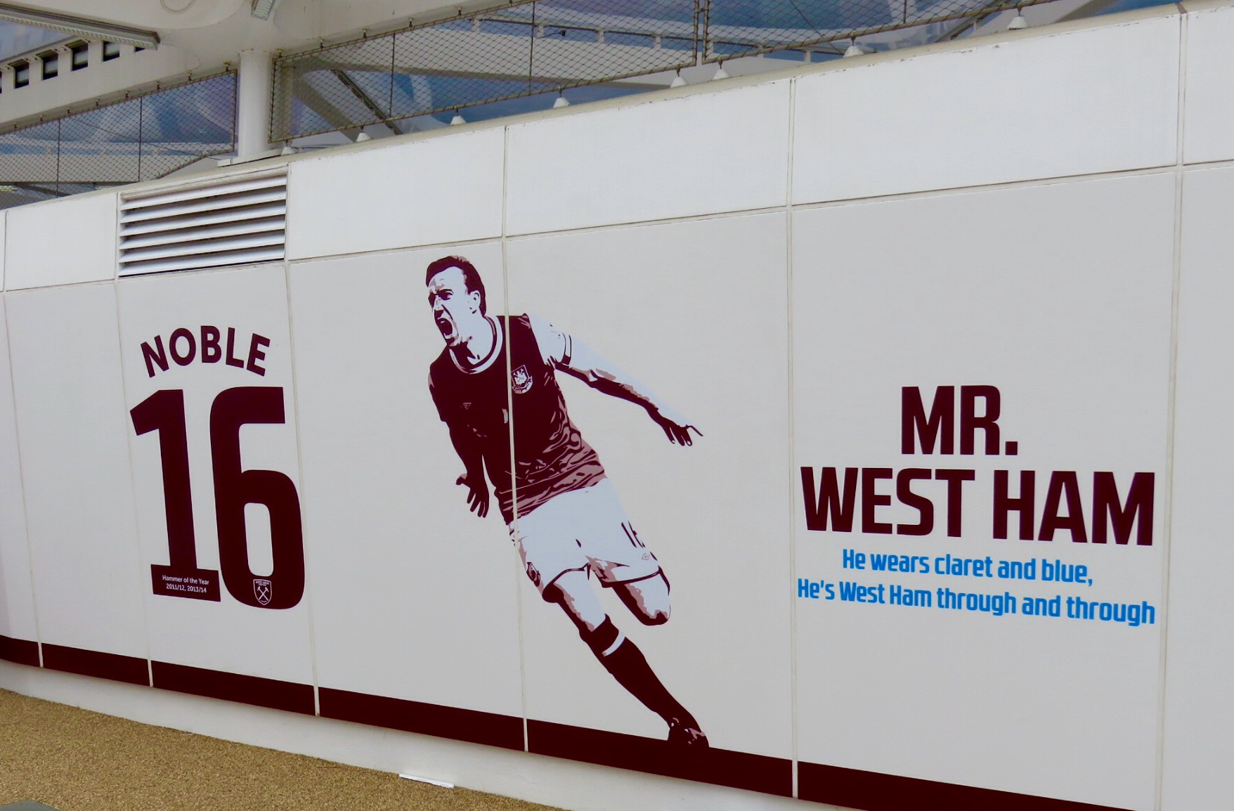 A display for West Ham United player, Mark Noble, at the London Stadium, Stratford London.